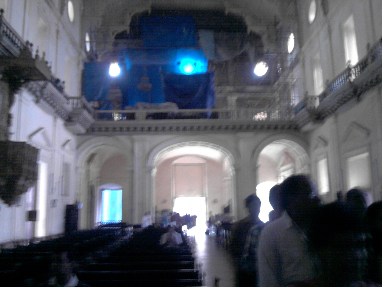 Basilica of Bom Jesus